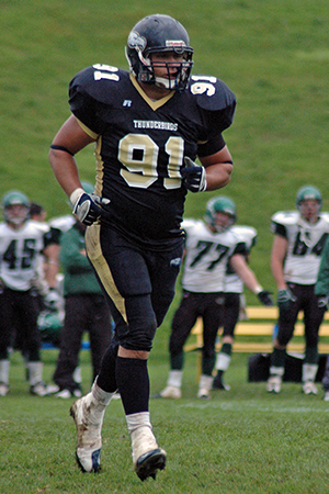 Photo of Canadian football player Sean Ortiz